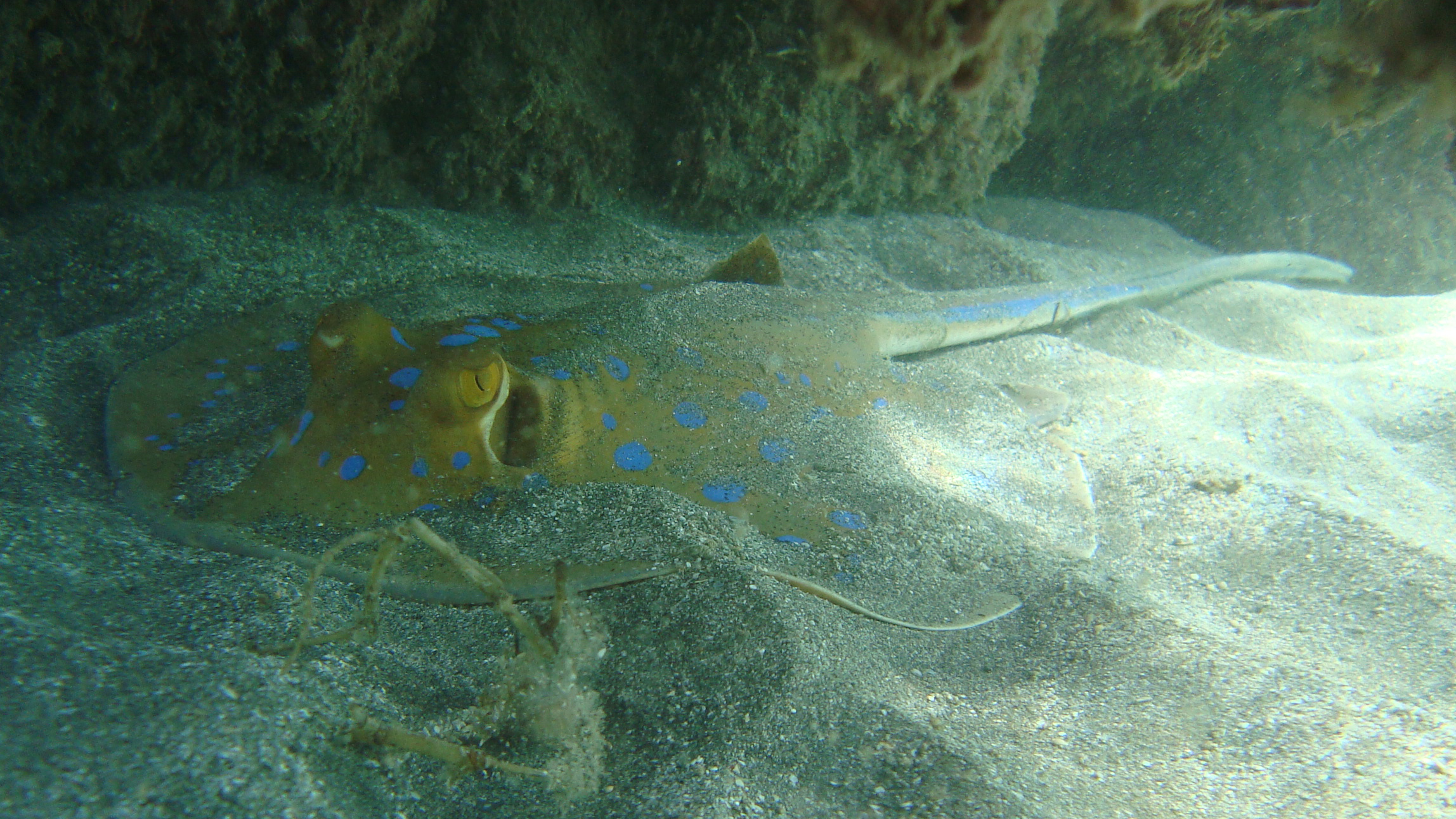 Blue-spotted Stingray hiding in the sand. Picture taken in Shams Alam, Egypt, Red Sea.